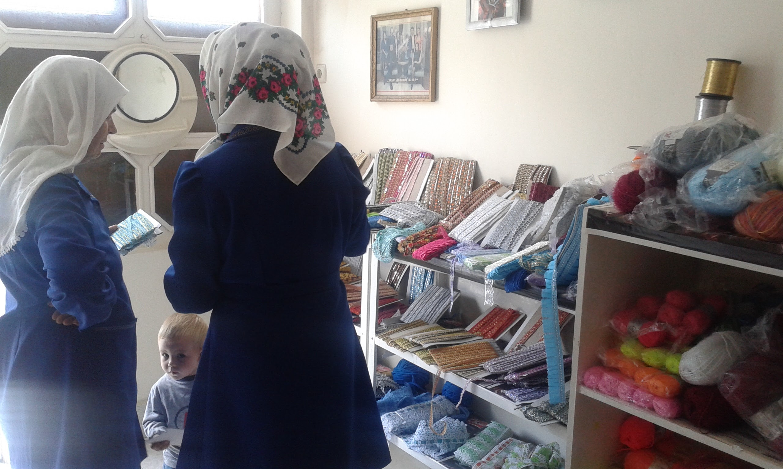 This photo has been taken in the country: Bulgaria